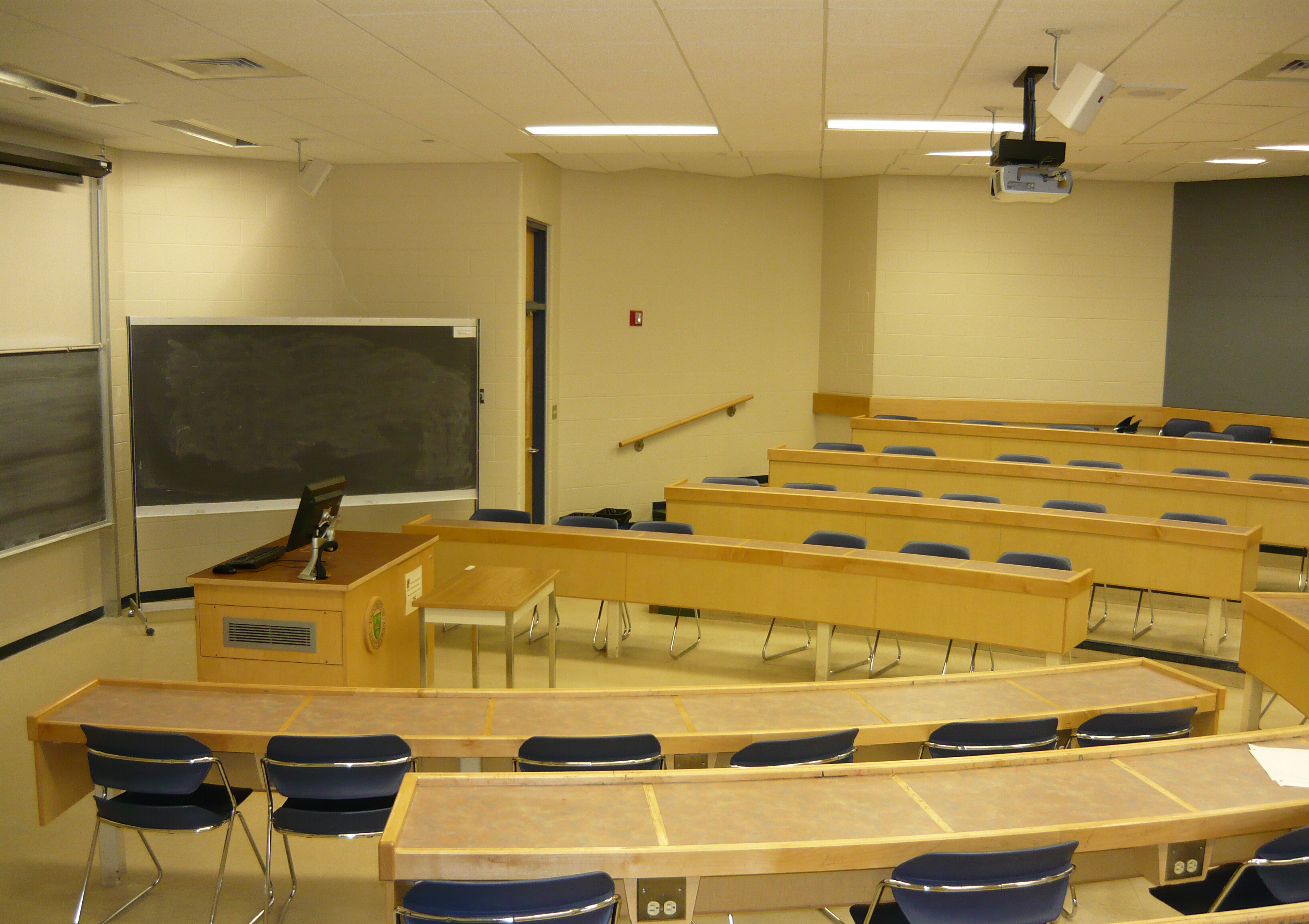 A typical classroom (Room 3) of the Edwards School of Business, University of Saskatchewan, 25 Campus Drive, Saskatoon, Saskatchewan, Canada. Opened 2002. Architect: Kindrachuk Agrey Architects Limited. Contractor: Wolfe Management.